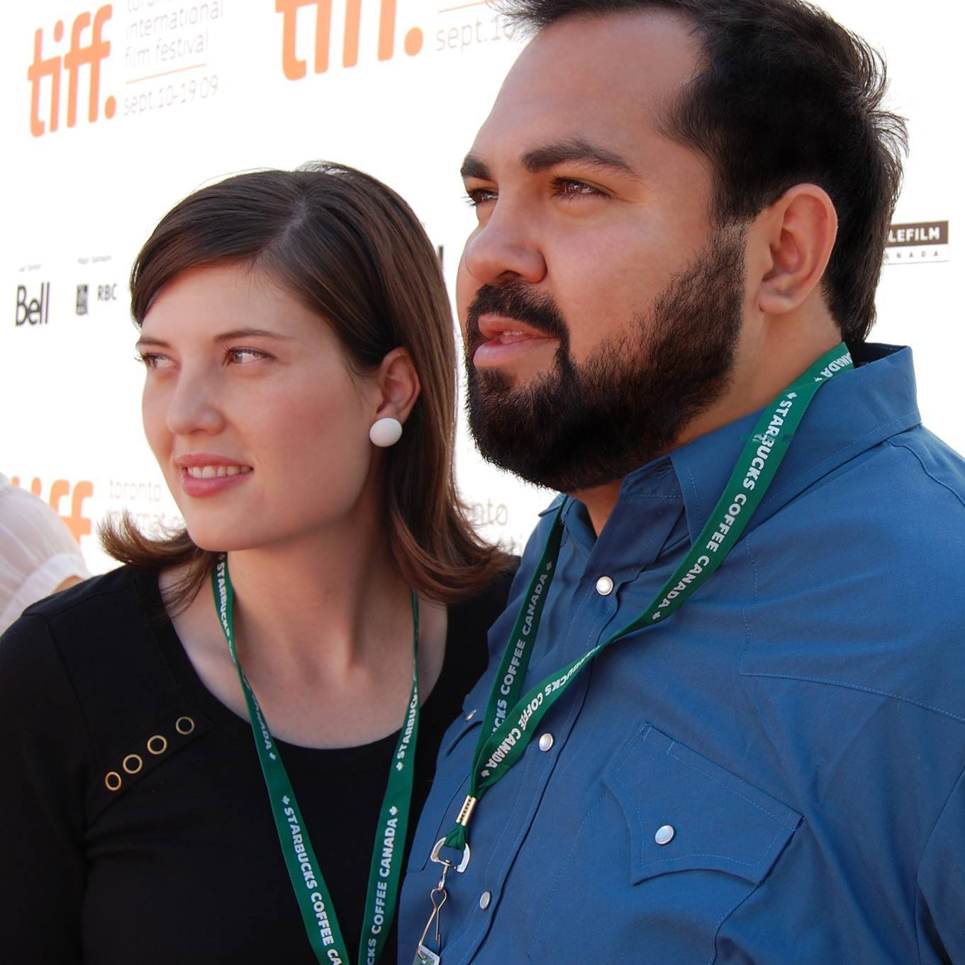 Joshua Ligairi with his wife, Rachel Mae, at the Toronto International Film Festival in 2009